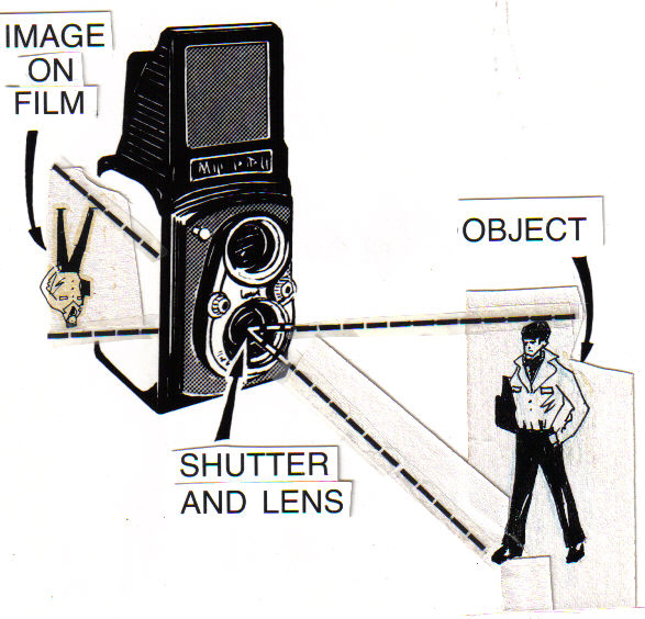 line art drawing of camera.